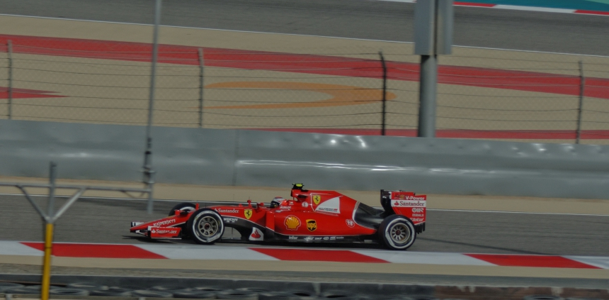 Kimi Räikkönen at the 2015 Bahrain Grand Prix